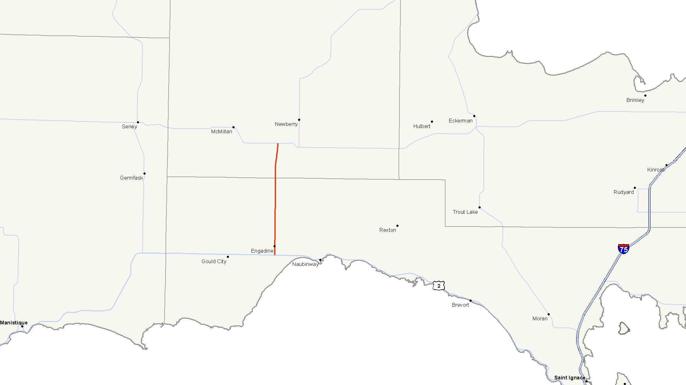 Map of M-117